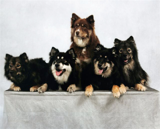 Finnish Lapphunds come in various colours and markings. Photo by Lynn Drumm [1]